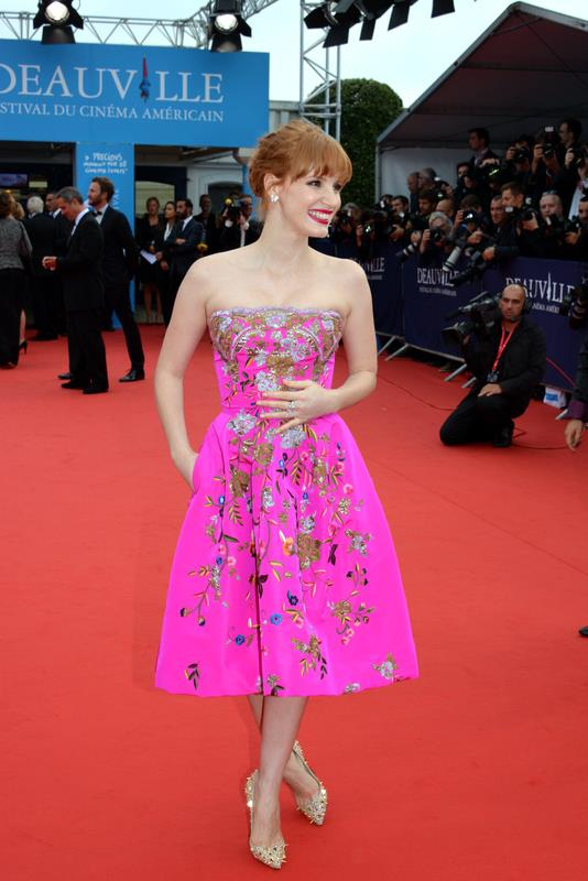 Jessica Chastain at the Deauville Film Festival